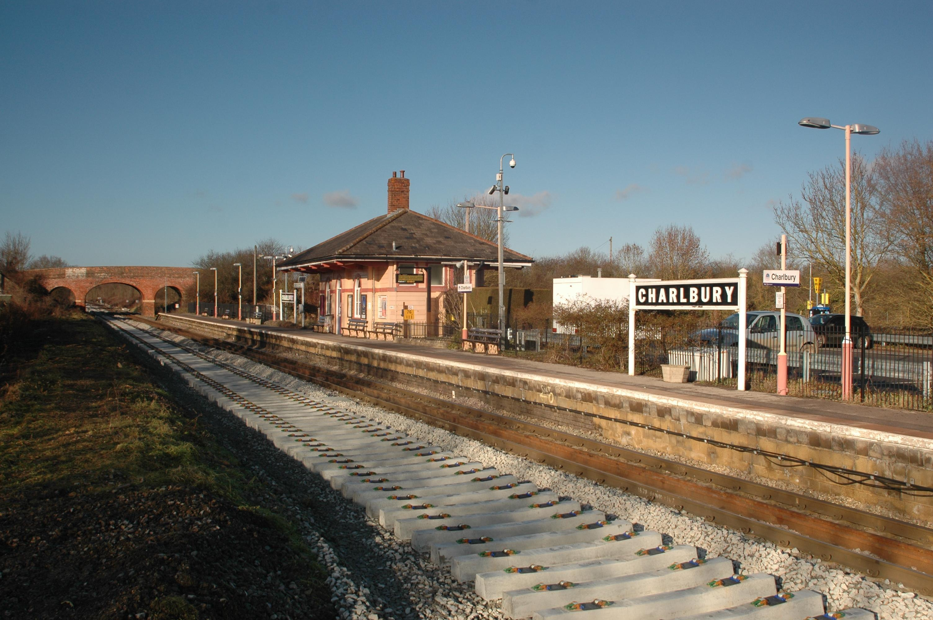 Charlbury railway station, Oxford, England on 09 January 2011, showing sleepers laid for the reinstallation of double track.